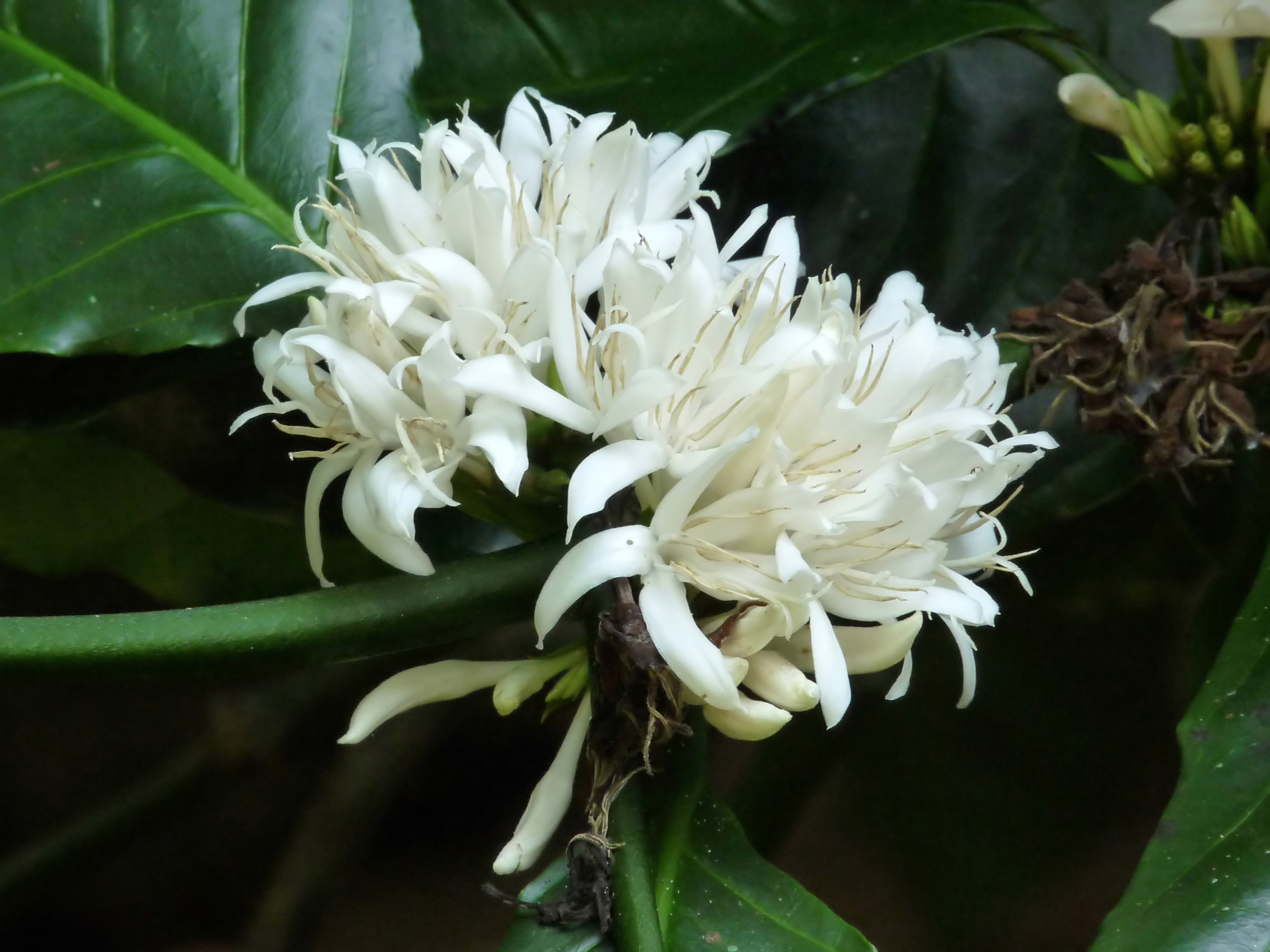 Robusta coffee (Coffea canephora; syn. Coffea robusta) is a species of coffee that has its origins in central and western sub-Saharan Africa. It is a species of flowering plant in the Rubiaceae family. Though widely known as Coffea robusta, the plant is scientifically identified as Coffea canephora, which has two main varieties - Robusta and Nganda. The plant has a shallow root system and grows as a robust tree or shrub to about 10 metres. It flowers irregularly, taking about 10–11 months for cherries to ripen, producing oval-shaped beans. The robusta plant has a greater crop yield than that of Coffea arabica, and contains more caffeine - 2.7% compared to arabica's 1.5%. As it is less susceptible to pests and disease, robusta needs much less herbicide and pesticide than arabica. Originating in upland forests in Ethiopia, C. canephora grows indigenously in Western and Central Africa. It was not recognized as a species of Coffea until the 19th century, about a hundred years after Coffea arabica.